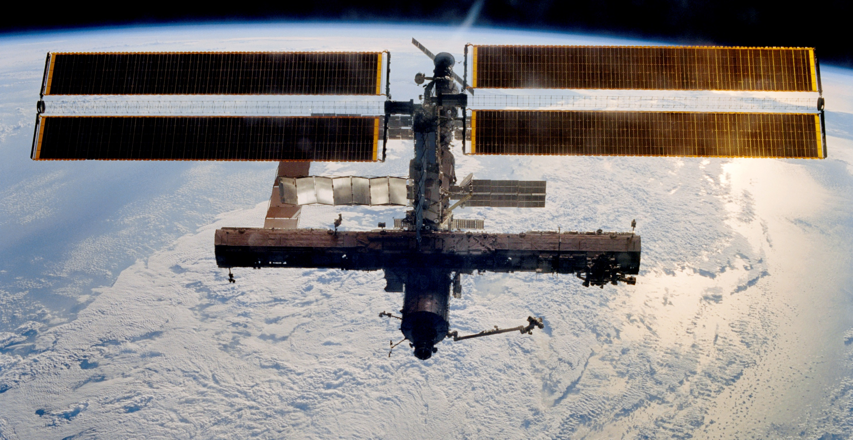 ISS with S0, S1 and P1 truss structures installed (NASA) Backdropped by a blue and white Earth, this full view of the International Space Station (ISS) was photographed by a crewmember on board the Space Shuttle Endeavour following the undocking of the two spacecraft. Endeavour pulled away from the complex at 2:05 p.m. (CST) on December 2, 2002 as the two spacecraft flew over northwestern Australia. The newly installed Port One (P1) truss now complements the Starboard One (S1) truss in center frame